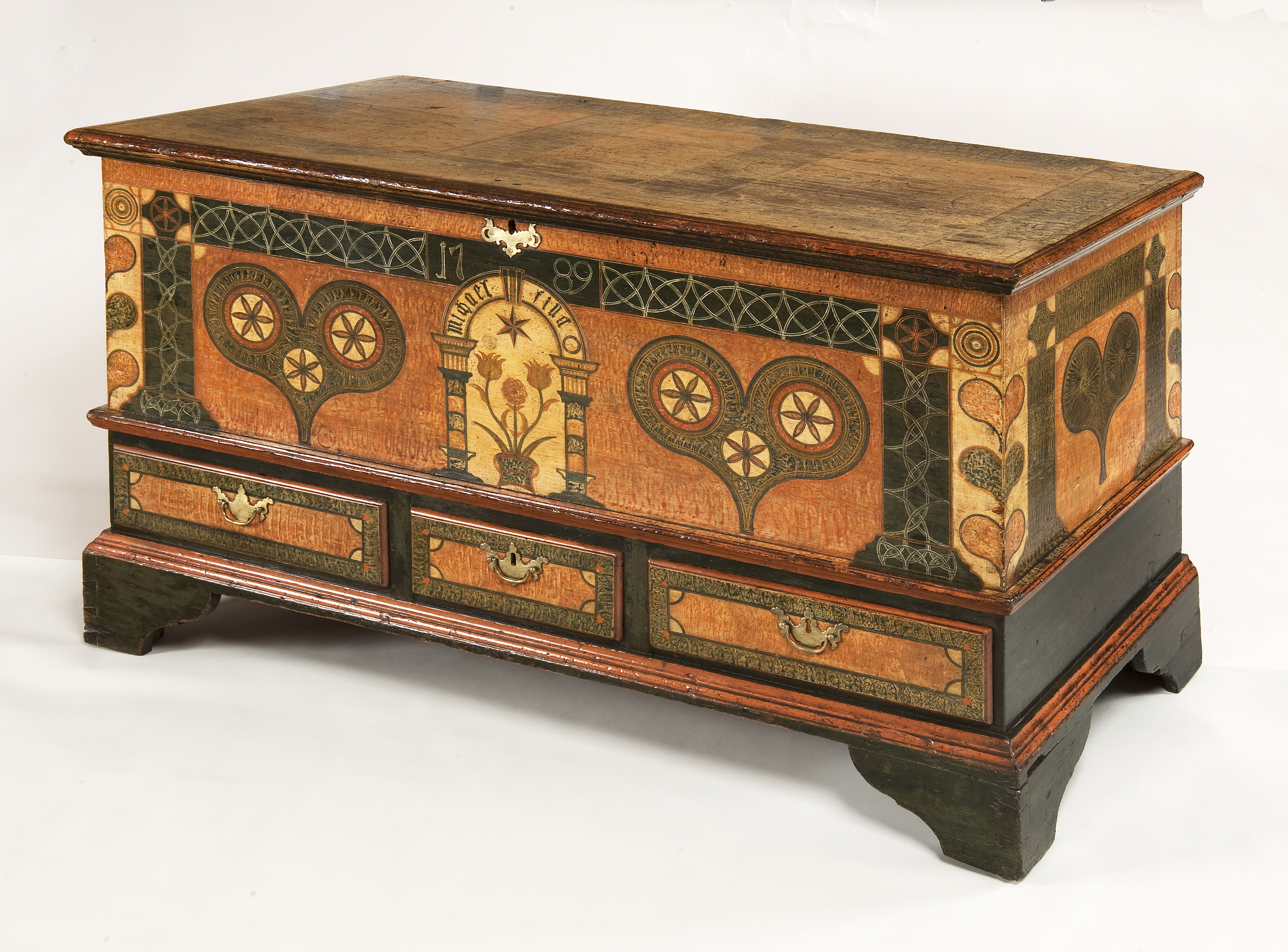 Meta data from the Barnes Foundation follows: Location On View: Room 13, North Wall Artist Attributed to John Bieber (American, 1763 - 1825) Culture American, Pennsylvania German Year 1789 Medium Painted pine, brass Accession Number 01.13.18 Dimensions Overall: 30 3/16 x 52 1/2 x 23 1/2 in. (76.7 x 133.4 x 59.7 cm) Viewing Status Currently on view Copyright Status Public Domain Decorated chests like this one were made by German-speaking settlers in the rural counties of Pennsylvania. They were used as storage for household goods or personal belongings; they could also provide seating, which might explain the abraded paint on the top of this one. The designs decorating the surface (hearts, tulips, stars, geometric shapes) were imported from Europe and can be found in other kinds of Pennsylvania German folk art, including fraktur (decorated works on paper). Bibliography De Mazia, Violette. "The Barnes Foundation: The Display of Its Art Collection." Vistas 2, no. 2 (1981-1983): pl. 124 (installation). Dolkart, Judith F., Martha Lucy, and Derek Gillman. The Barnes Foundation: Masterworks. New York: Skira Rizzoli, 2012: 212-213, 215, 224. Fabian, Monroe H. The Pennsylvania-German Decorated Chest. Atglen, Pa: Schiffer Publications, Ltd., 2004: 47-49. Hornung, Clarence Pearson. Treasury of American Design: A Pictorial Survey of Popular Folk Arts Based Upon Watercolor Renderings in the Index of American Design at the National Gallery of Art. Vol. 2. New York: H. N. Abrams, 1972, 707, no. 2589. Minardi, Lisa. Drawn with Spirit: Pennsylvania German Fraktur from the Joan and Victor Johnson Collection. Philadelphia Museum of Art, 2015: 23. Shaner, Richard H. "Bieber Family of Furniture Makers in Oley Valley." Historical Review of Berks County 71, no. 3 (Summer 2006): 123, ill., 124-126.